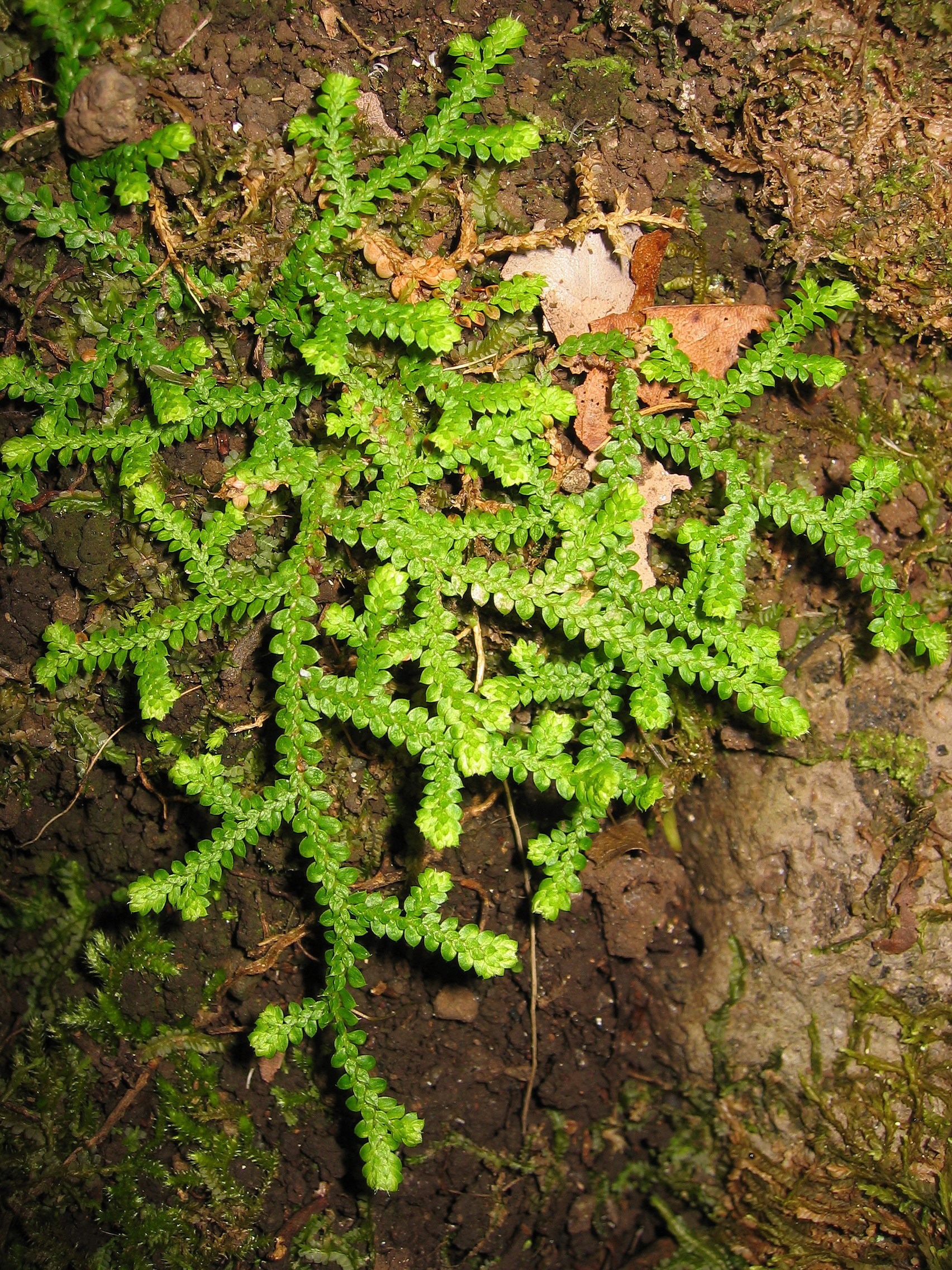 Selaginella denticulata, Cubo de la Galga, La Palma, Spain